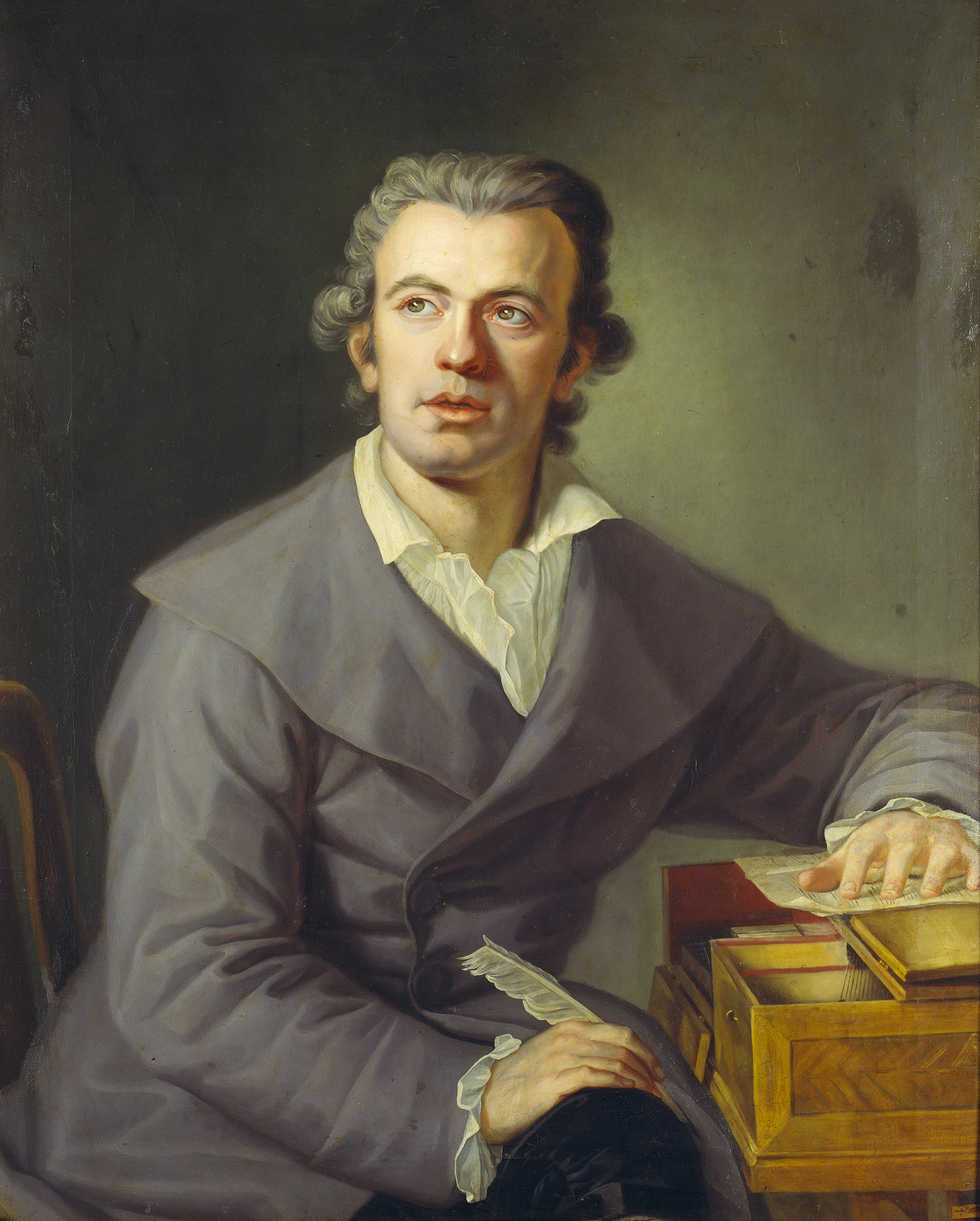 Depicted person: Johann Gottlieb Naumann